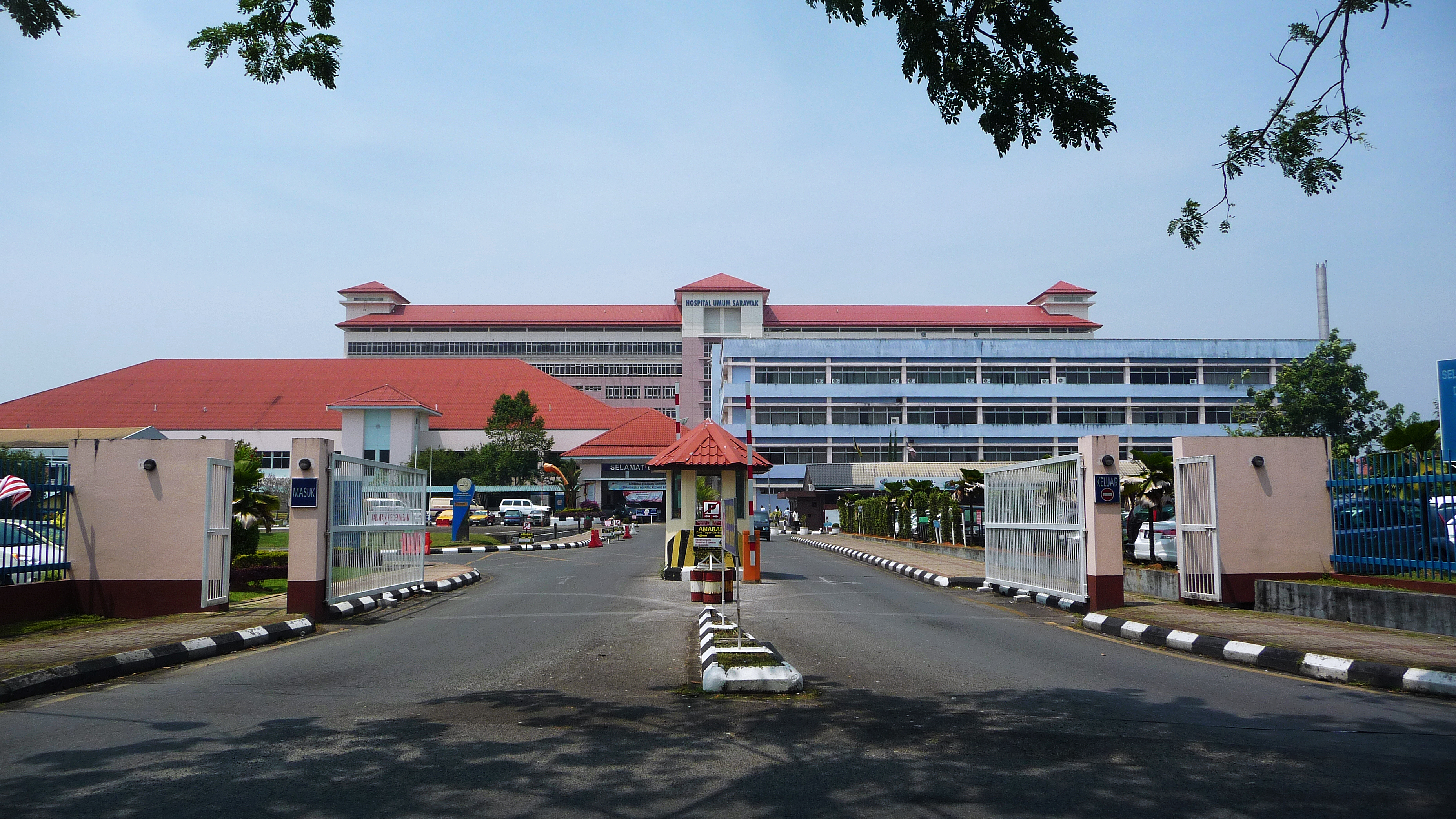 Sarawak General Hospital on 27 August 2011